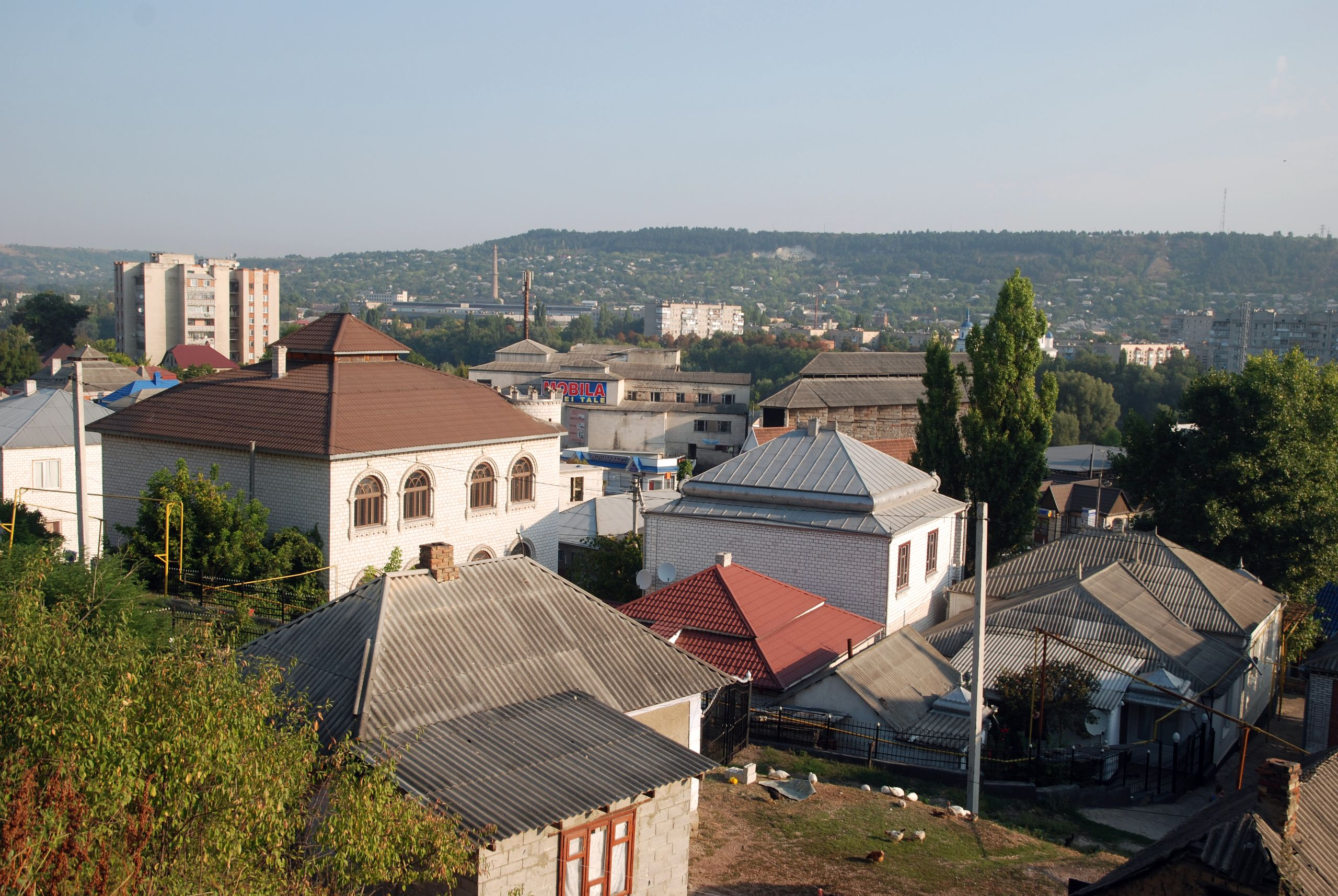 Otaci, town center